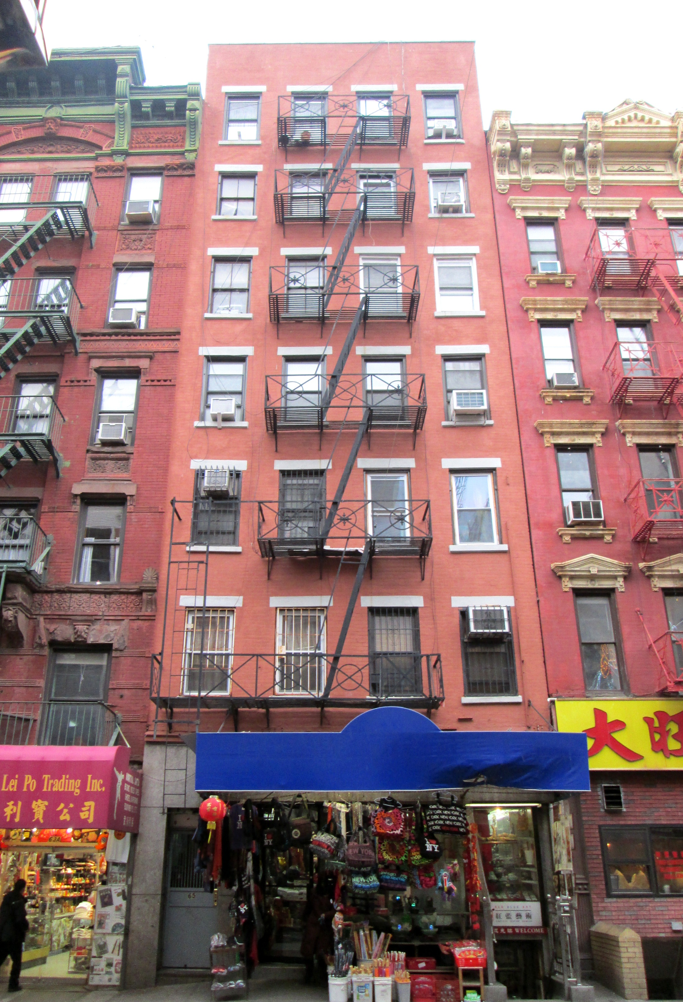 The building at 65 Mott Street, between Canal and Bayard Streets in the Chinatown neighborhood of Manhattan, New York City, was built c.1824 and is the first tenement building in New York City, and possibly the first in the United States. Prior to this, people who did not own a home live in rooming houses or single-family houses that had been converted (sometimes minimally) for multiple family use. 65 Mott was the first building deliberately constructed to house multiple families, with two apartments on each floor, one in the front and one in the back, each of which had a parlor, living room and two bedrooms. Outhouses were in the "yard" in the back. 65 Mott had a smaller footprint that the tenements (which were originally called "tenant houses") that came after, which followed approximately the same model, but which were later regulated by law to provide sufficient light and air to all the residents. With the great influx of immigrants into New York, the tenement provided the solution to the problem of housing them. (Source: Inside the Apple (2009))